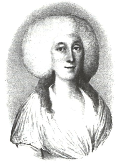 Johannette Elisabeth von Hofmann geb. Freudenberger, Wetzlar